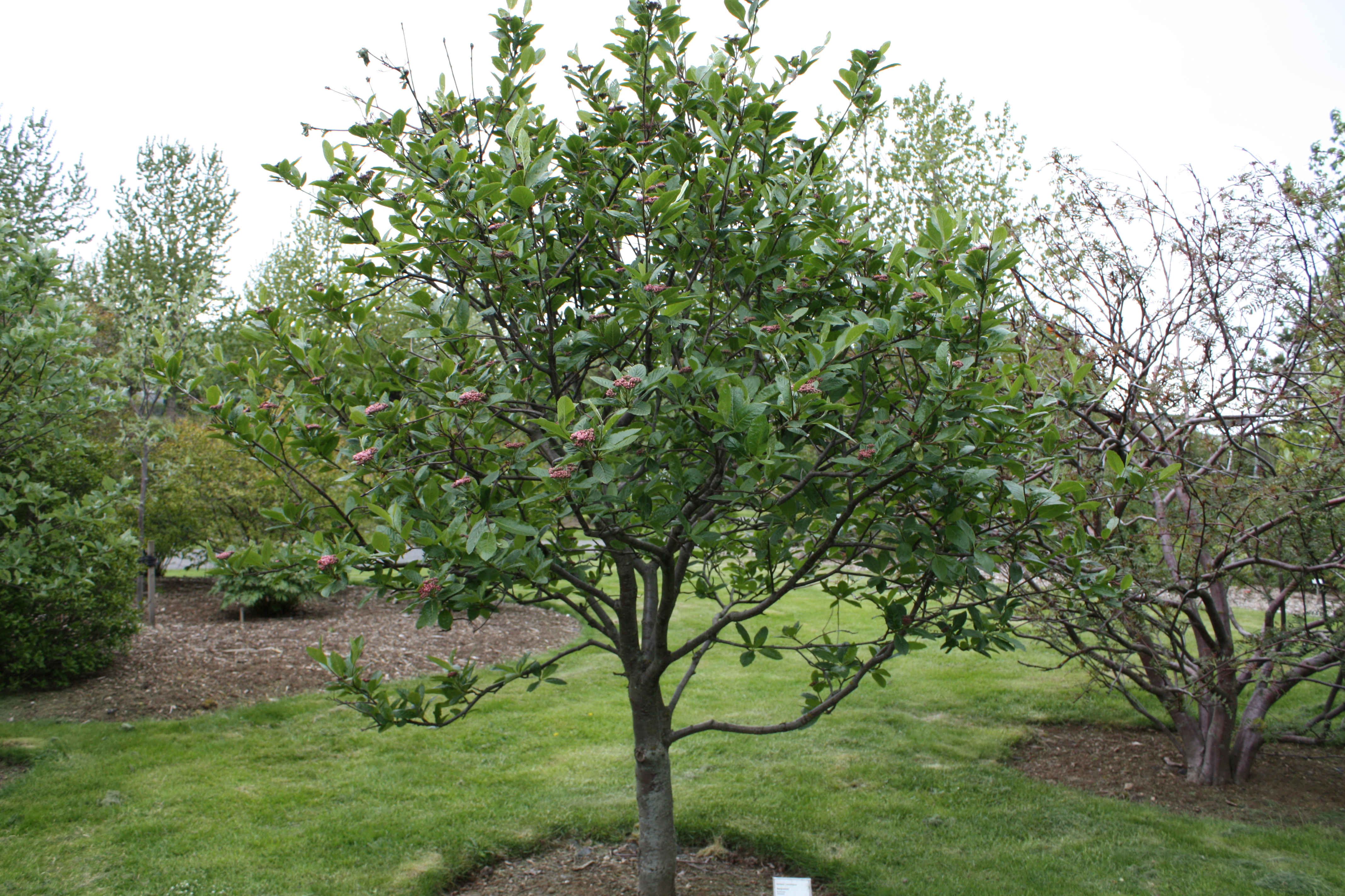 Sorbus x ambigua (Sorbus aria x Sorbus chamaemespilus) in the Reykjavik Botanic Garden